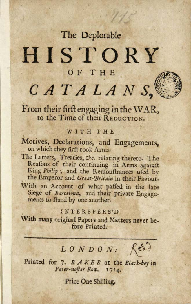 The Deplorable History of the Catalans: from their first engaging in the war, to the time of their reduction with the motives, declarations, and engagements, on wihch they first took arms. The letters, treaties, ...